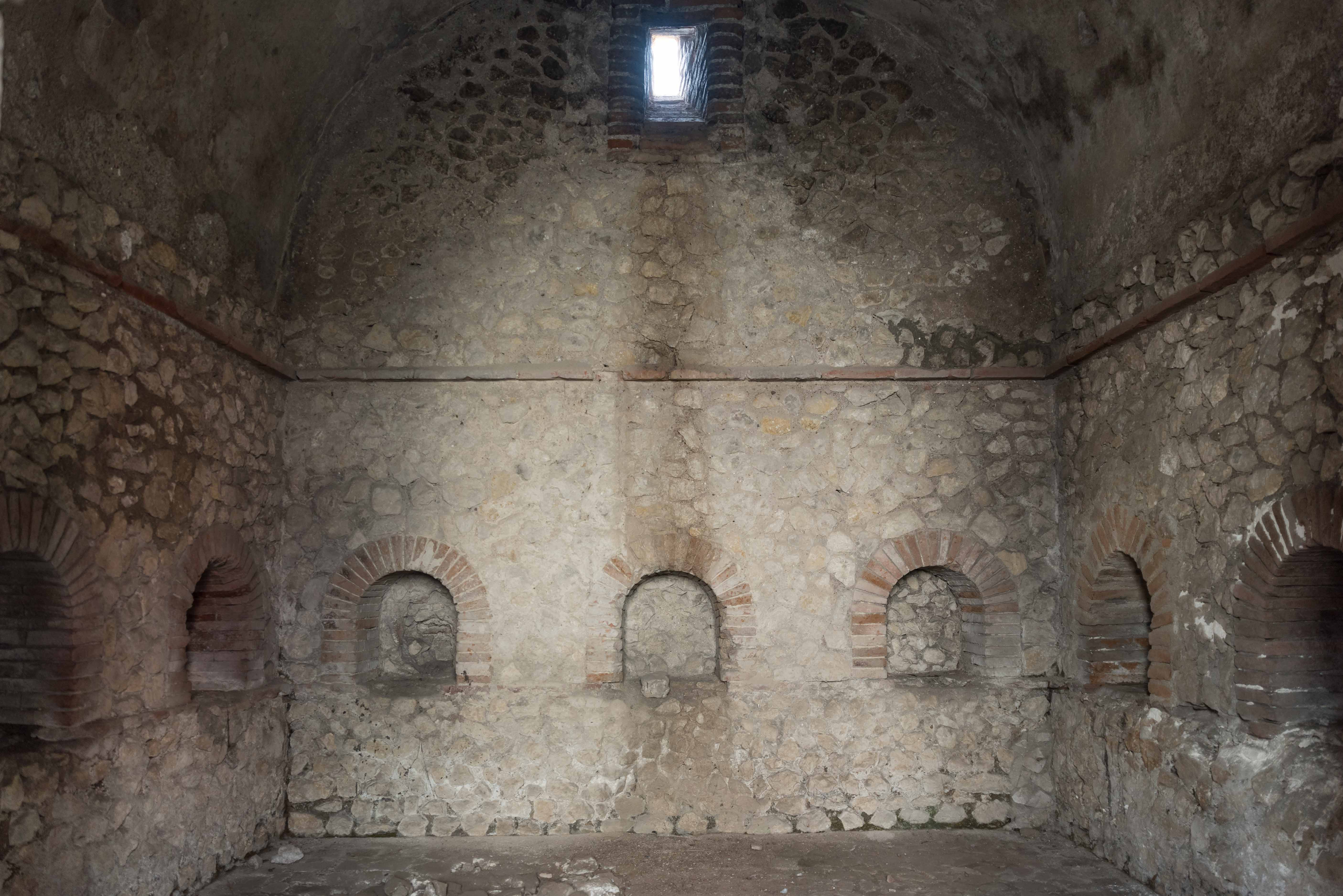 This is a photo of a monument which is part of cultural heritage of Italy.